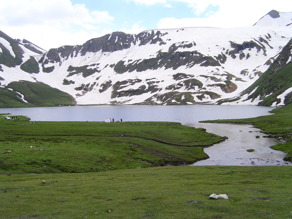 A view of Dudipatsar Lake. in Lulusar-Dudipatsar National Park One of the most beautiful lakes in Pakistan I have ever seen (Author:Ch. Muhammad Umer, July-2004)